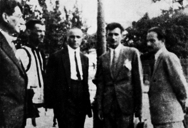 Deputies of the Workers and Peasants' Bloc elected in the 1931 Romanian parliamentary elections. From left to right (constituency): Eugen Rozvan (Bihor), Vasile Caşul (Cernăuţi), Ştefan Dan (Mureş), Lucreţiu Pătrăşcanu (Timiş), Imre Aladar (Satu Mare). All were eventually invalidated at the government's request.